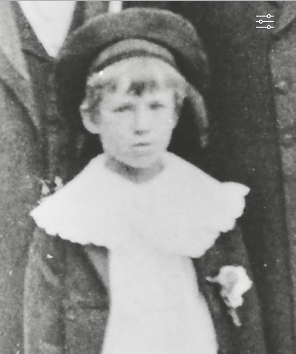 Alan Gordon-Finlay, circa 1898, London